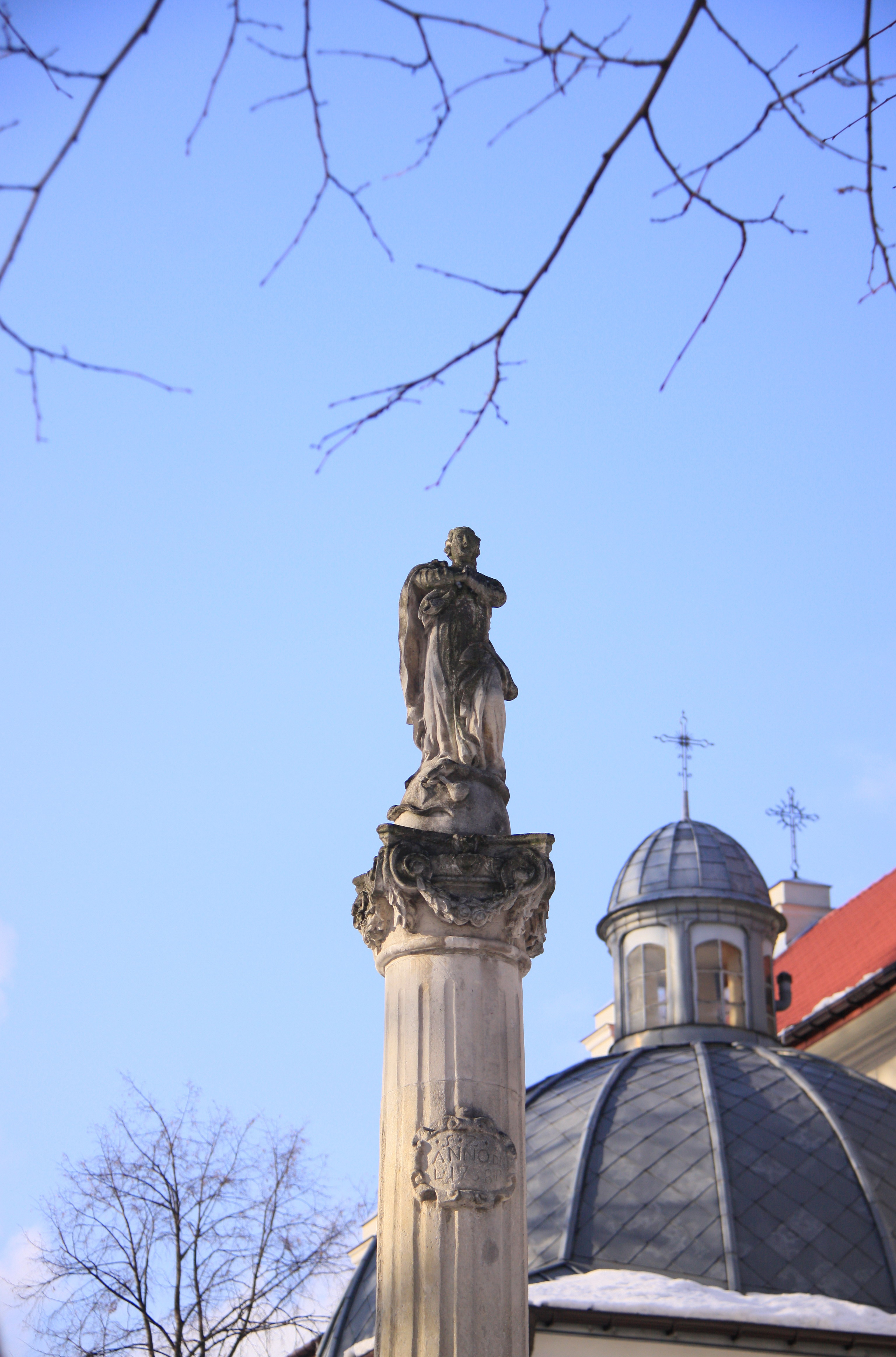 Statue of Our Lady of the Immaculate Conception in 1738 at the church NPNMP in Busko-Zdrój. Damaged during the bombing 13.01.1945 r, renovated in July 1946